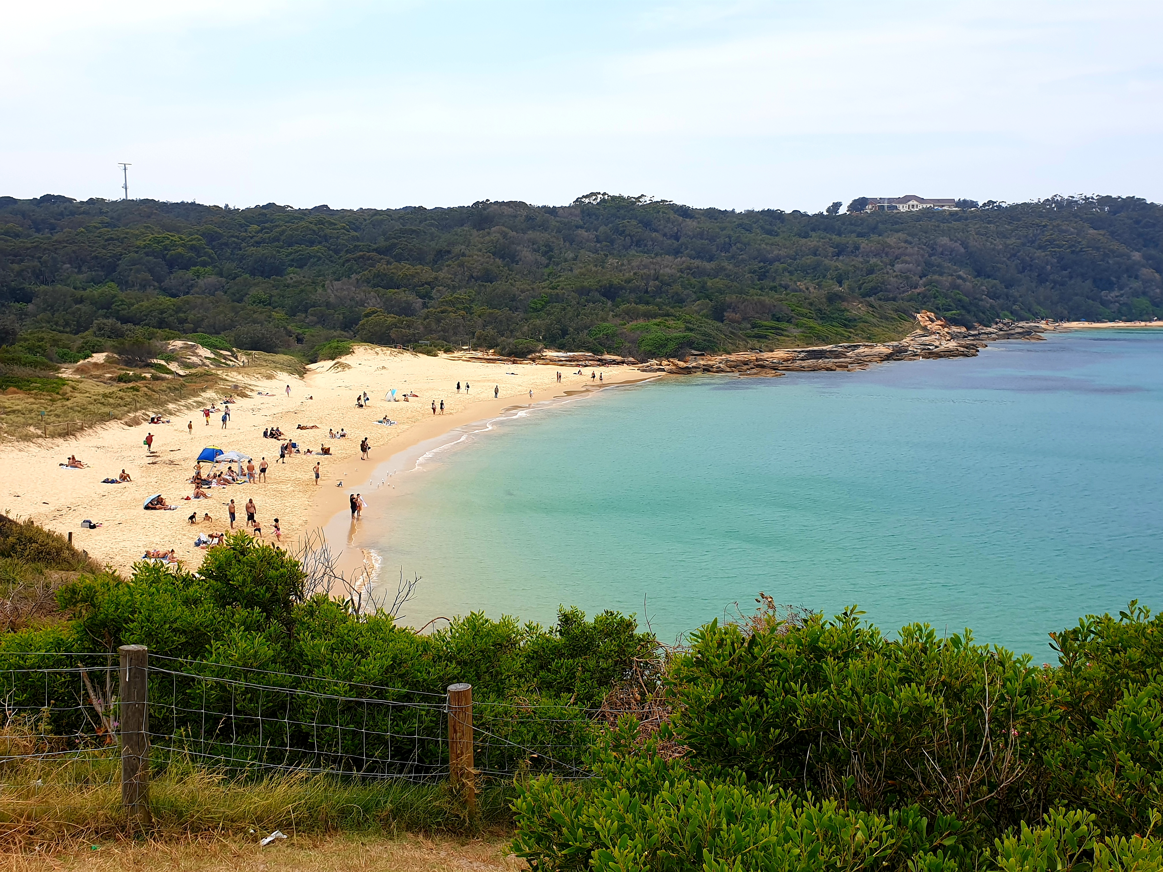 Congwong Beach, Kamay Botany Bay National Park, La Perouse, New South Wales.